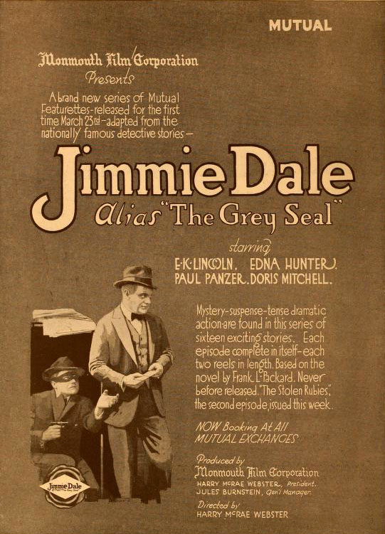 Advertisement in Moving Picture World, Apr 1917